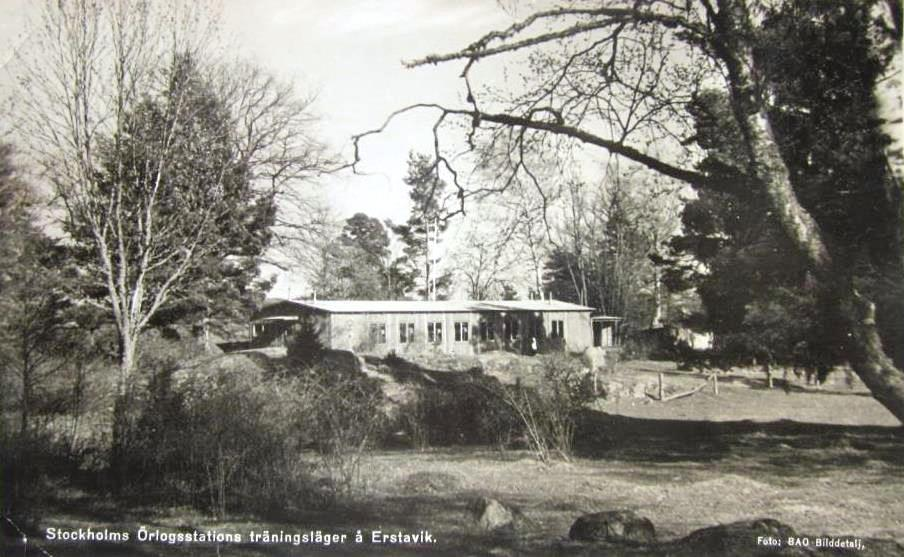 The Swedish Navy's (Stockholms örlogsstation) training camp at Erstavik